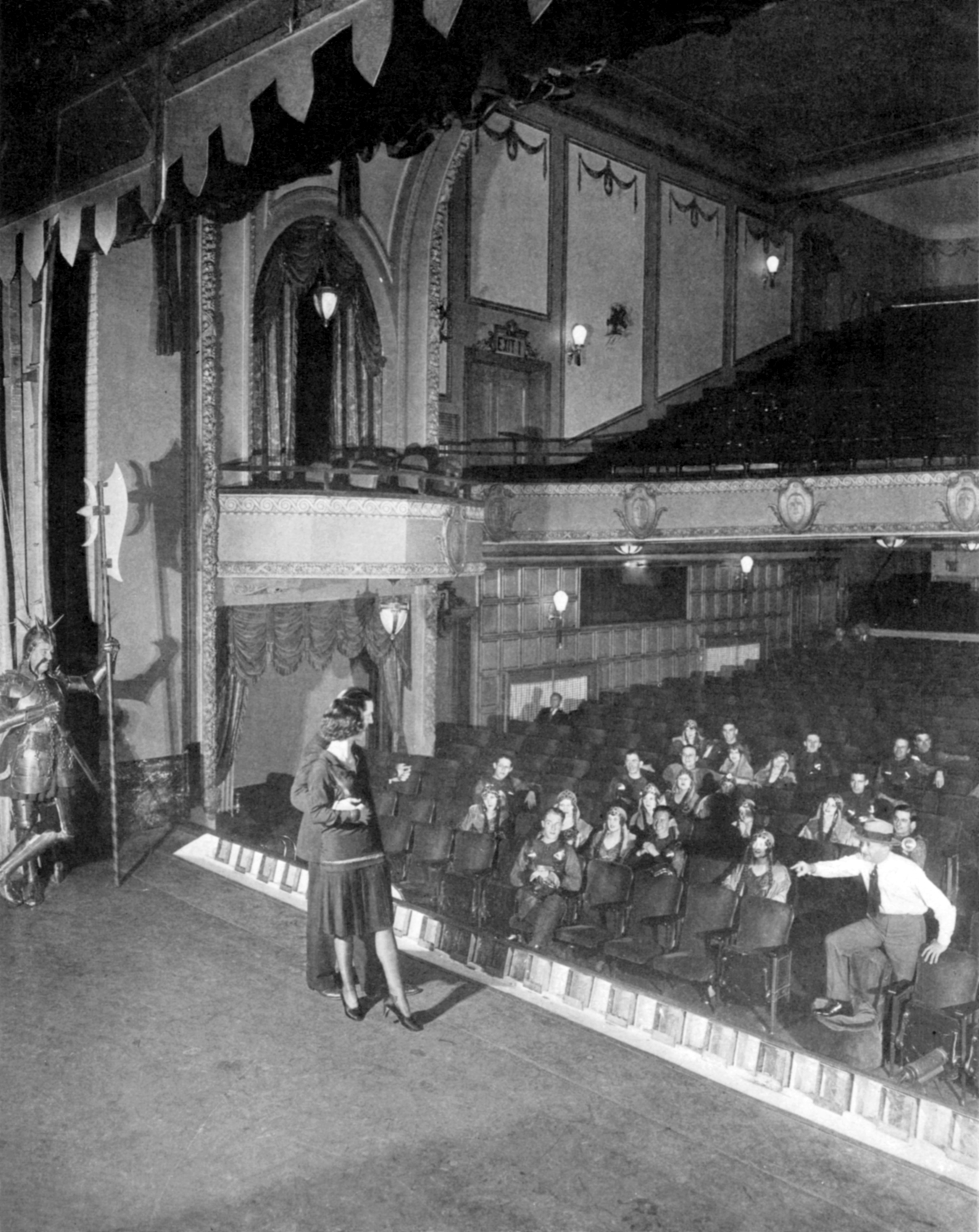 Photograph of a mid-run rehearsal of the original Broadway musical A Connecticut Yankee at the Vanderbilt Theatre, New York City Caption reads as follows: How "Spontaneous" Fun is Manufactured for Popular Consumption A back-stage glimpse of a mid-run dress rehearsal of the musical comedy success A Connecticut Yankee. The gentleman in negligee is none other than Lew Fields (of Weber & Fields fame) who has produced this tuneful adaptation of Mark Twain's famous story, and the stage is that of the Vanderbilt Theatre in New York. The actor who clasps the shy maiden in loving embrace is William Gaxton and the s. m. is Constance Carpenter. They are the principals of the piece. The nonchalant knight in full armor is Gordon Burby and the picturesque people in the orchestra chairs are members of the cast who are enjoying the new lines and "business" with which Mr. Fields is further fortifying this outstanding hit in musical comedy.